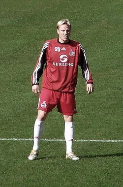 Christian Lell of Bayern München warming up for his last Club, 1.FC Köln